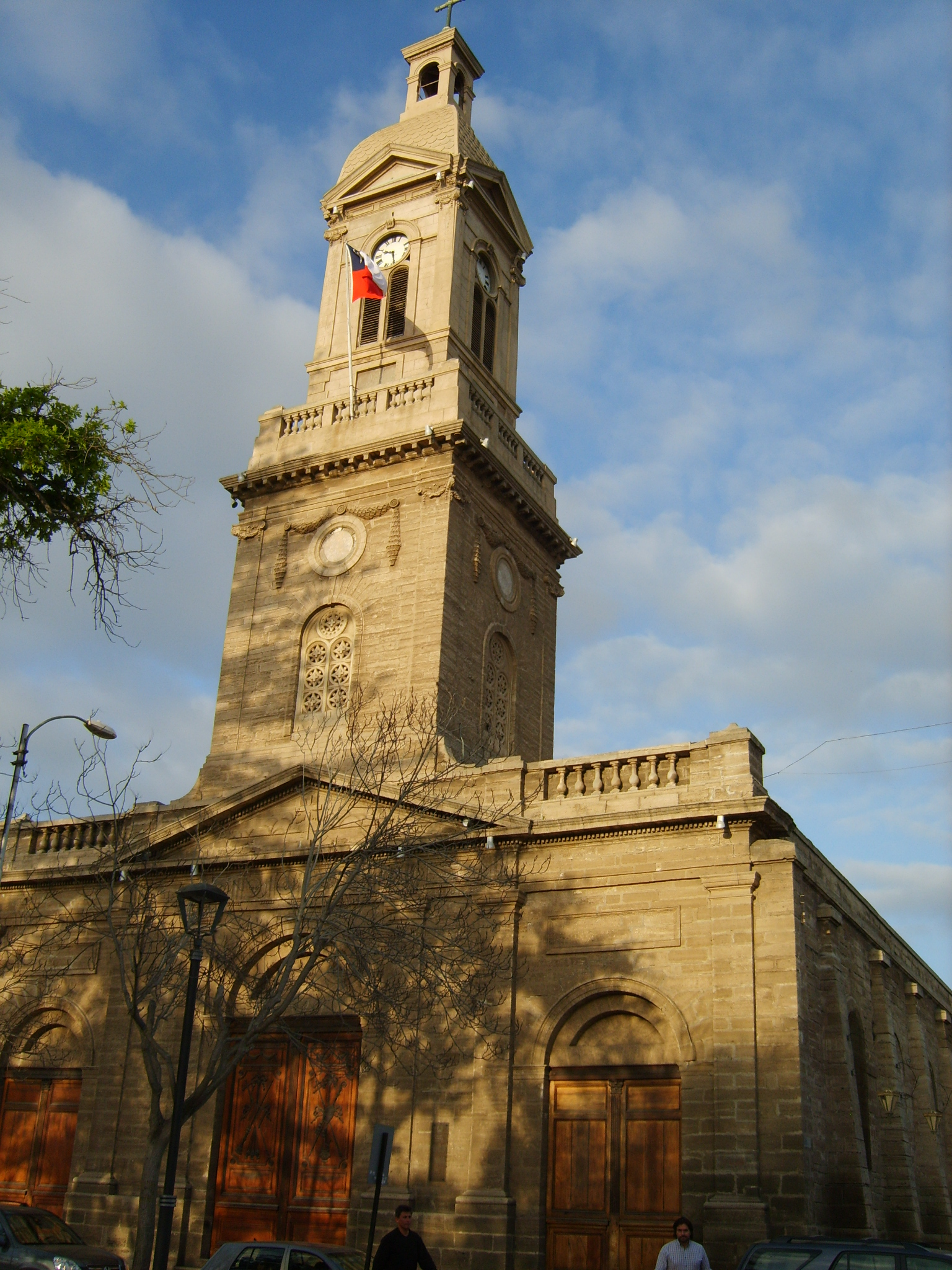 La Serena Cathedral, located in the corner of Cordovez and Los Carrera Streets, in front of the town square.